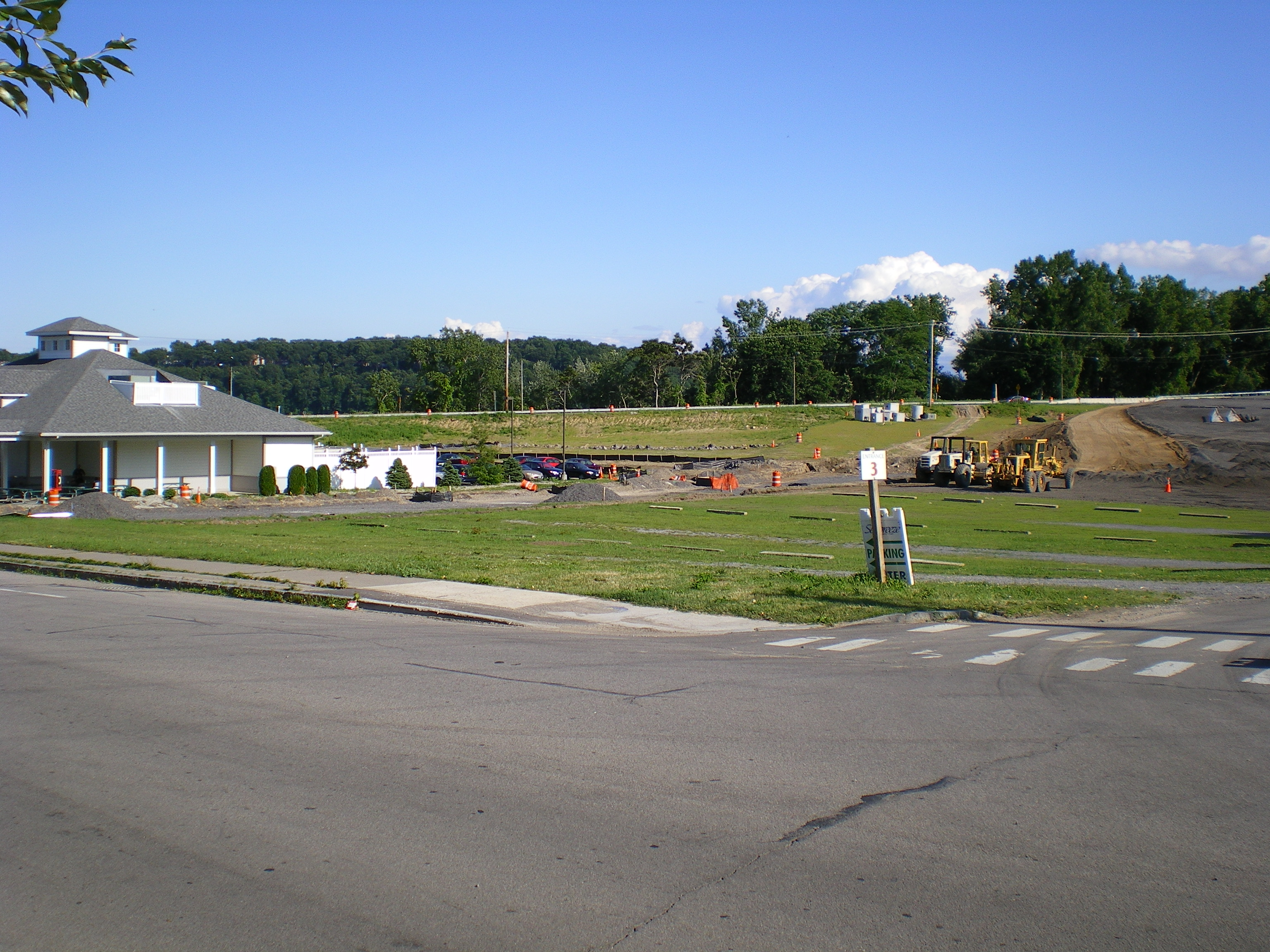 The under-construction new alignment of New York State Route 590 in Irondequoit, New York as it appeared in July 2009. The realignment is part of the multi-million dollar "Sea Breeze Drive" project. The embankment in the background is the existing alignment of NY 590. This image is taken from Culver Road near the Seabreeze Amusement Park north entrance, with the camera facing south-southeast.